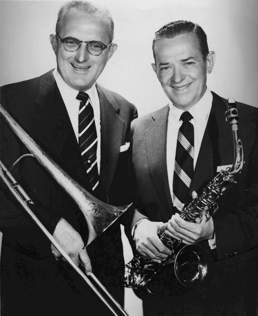 Photo of bandleaders Tommy (left) and Jimmy Dorsey. The two brothers originally led the Dorsey band together, but had a serious falling-out in 1935. Tommy walked out after an on-stage argument between them, with Tommy forming his own band. The brothers reunited in 1945 and consolidated their bands in 1953 to become the Dorsey Brothers Orchestra. Tommy Dorsey died in 1956 and Jimmy died in 1957. The item has no copyright markings on it as can be seen in the links above.